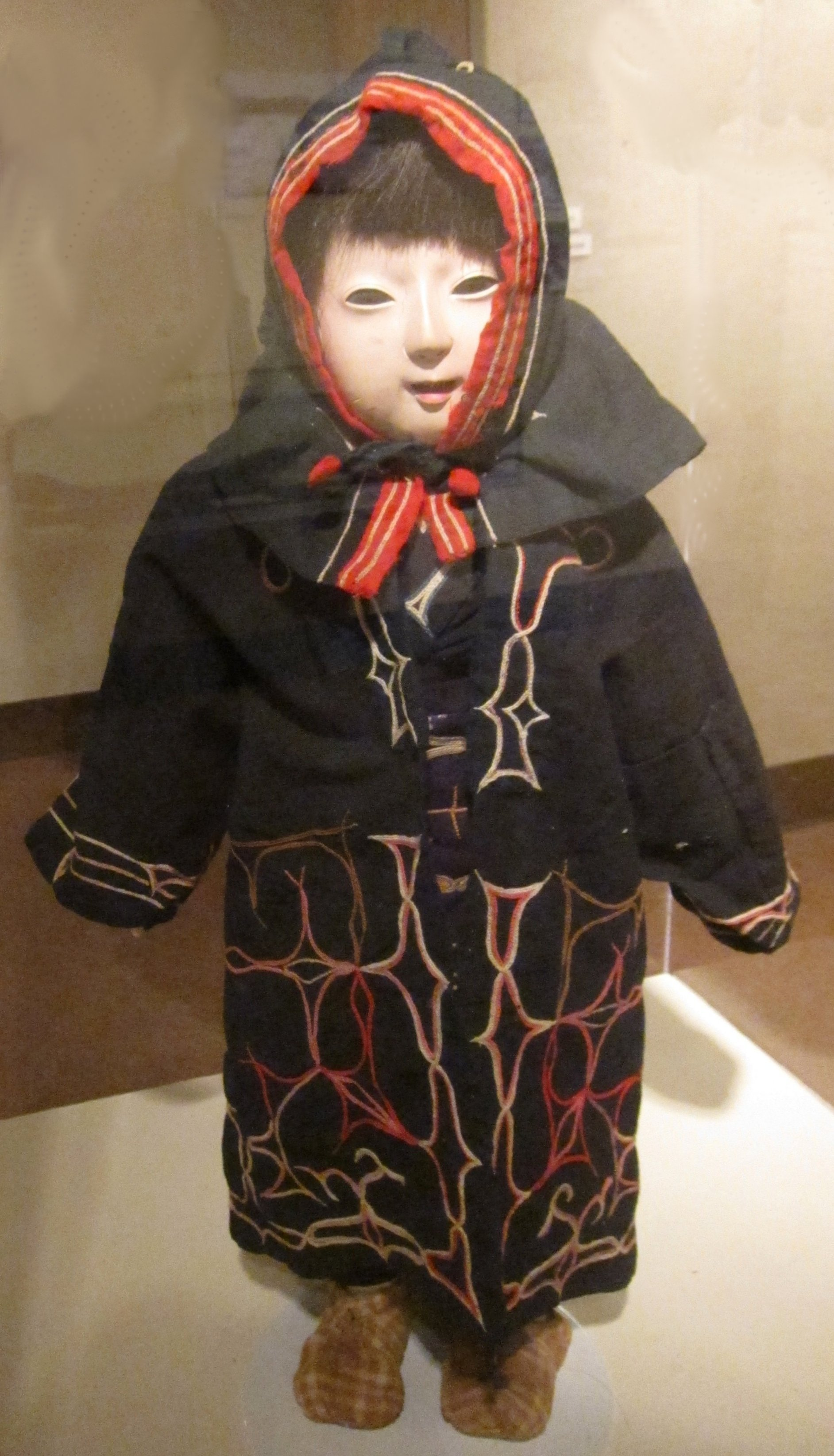 Ainu doll, early 20th century, wood and cloth, Shiraoi, Hokkaido, Biship Museum